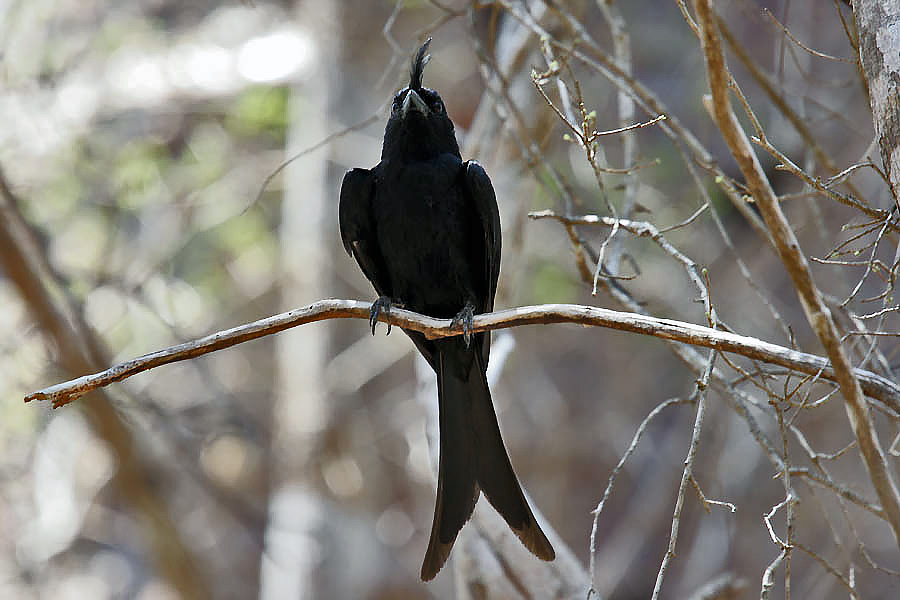 Crested Drongo (Dicrurus forficatus) at the Kirindy Forest Reserve, Madagascar